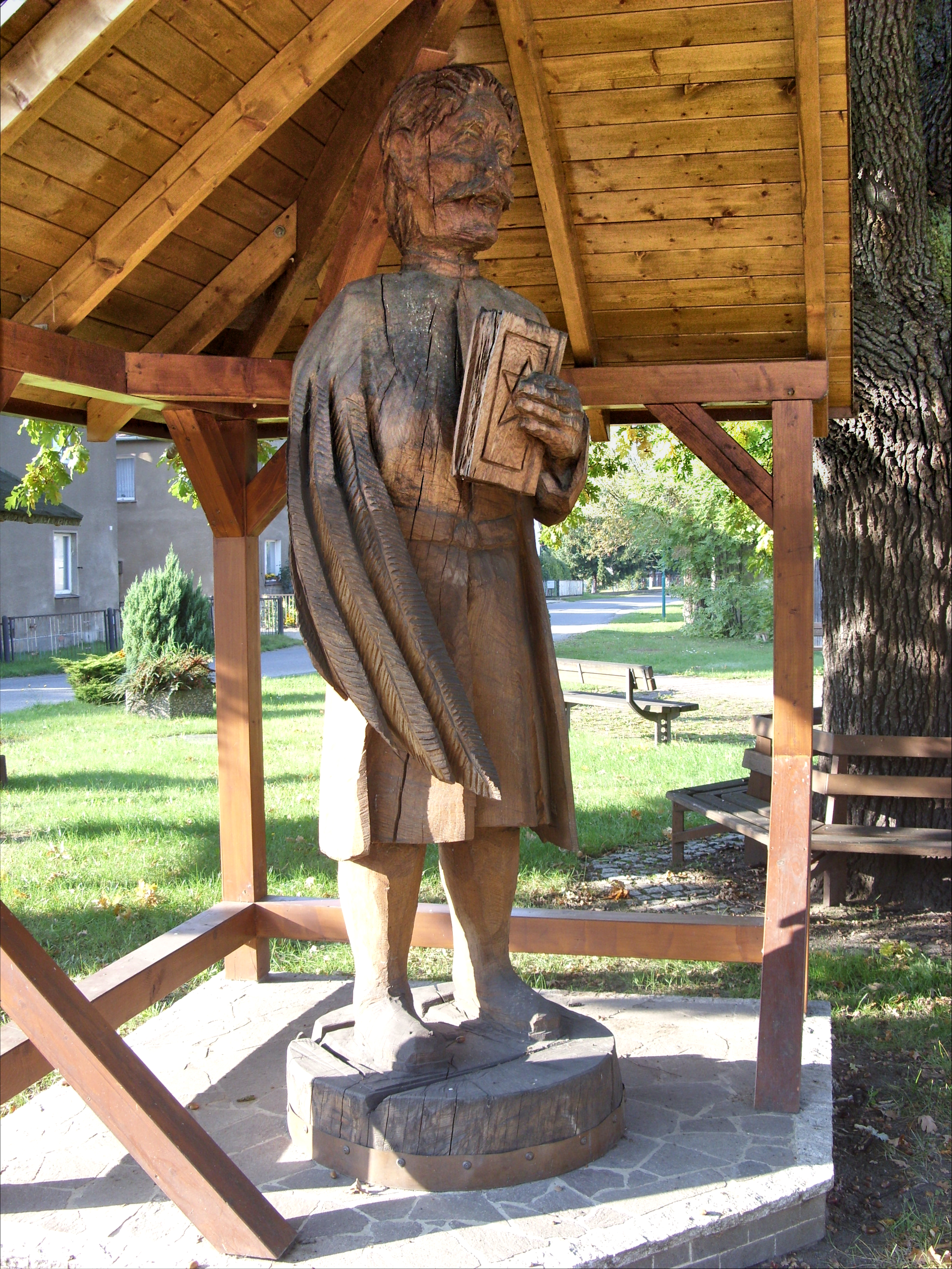 Statue of Krabat in Groß Särchen, Lohsa municipality, Bautzen district, Saxony.